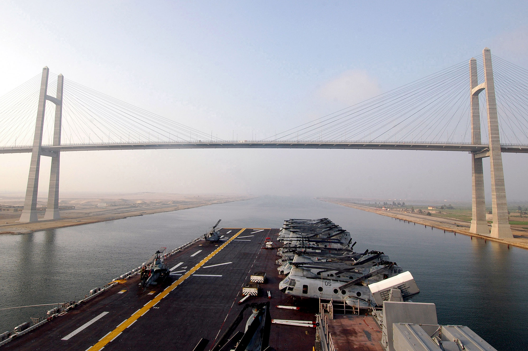 USS Iwo Jima (LHD 7) passes by the Mubarak Peace Bridge while transiting through the Suez Canal in Egypt July 4, 2006. The multi-purpose amphibious assault ship is currently deployed in support of maritime security operations in the region.